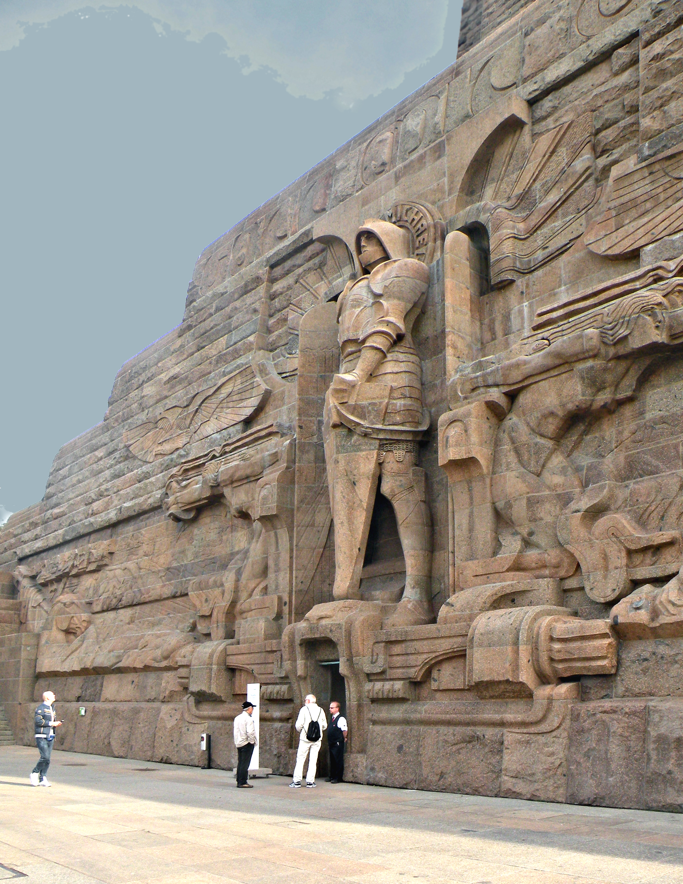 The stone statue of archangel Michael at the entry.